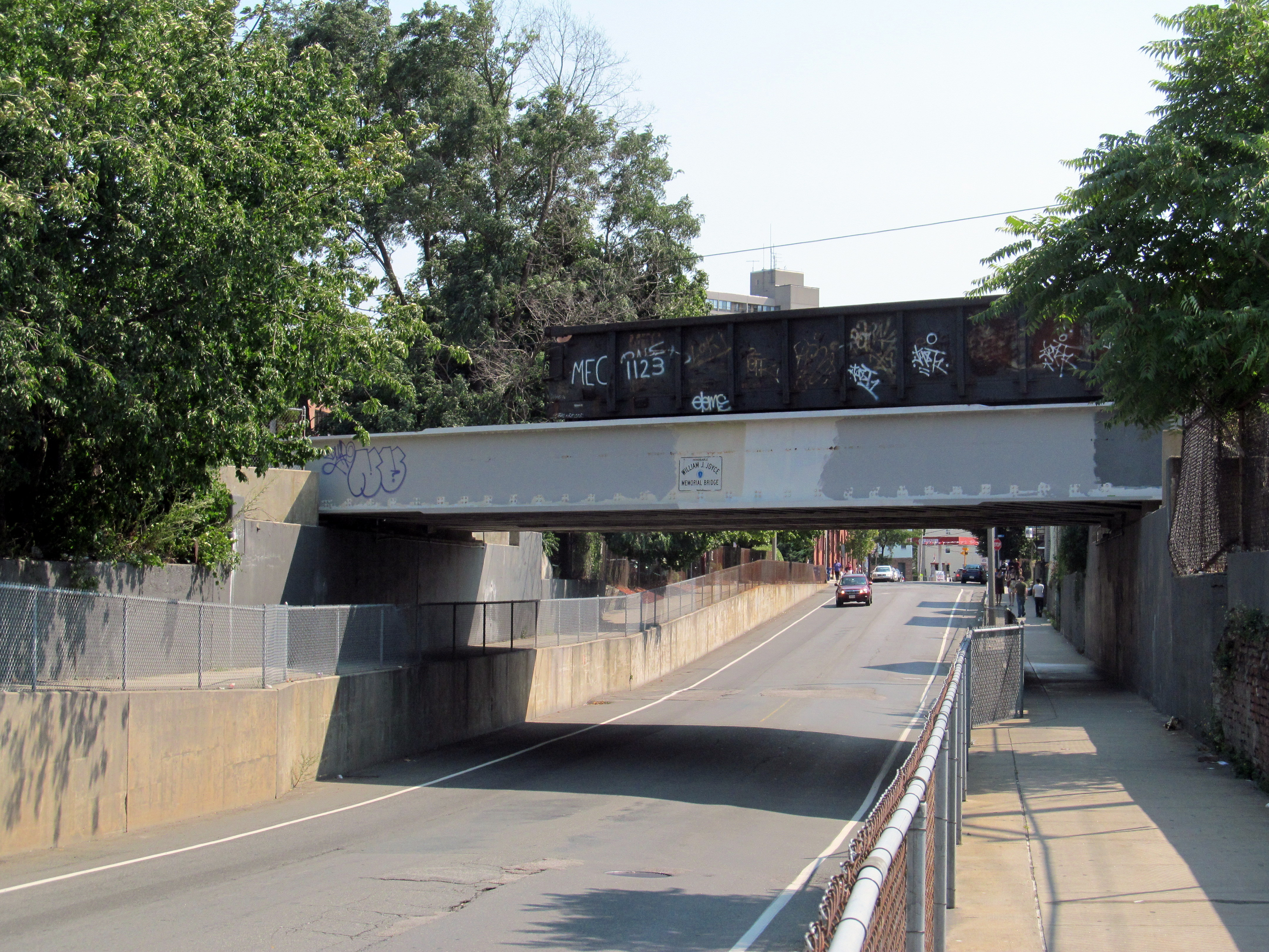 The Medford Street bridge in Somerville, which carries the MBTA Fitchburg Line, as viewed in August 2012. The bridge will be rebuilt as part of Green Line Extension work to carry the Union Square branch of the Extension.